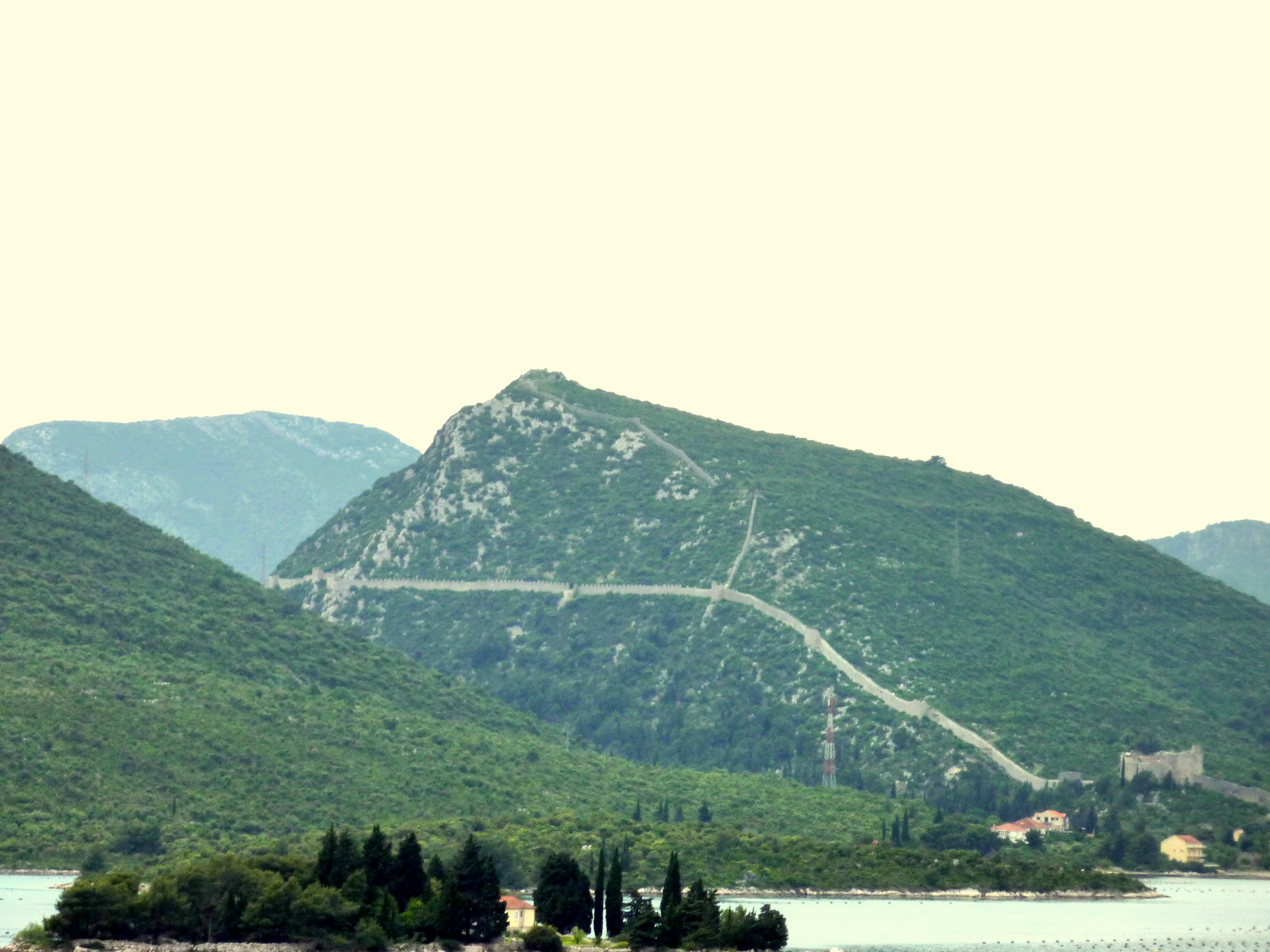 City walls of Ston.